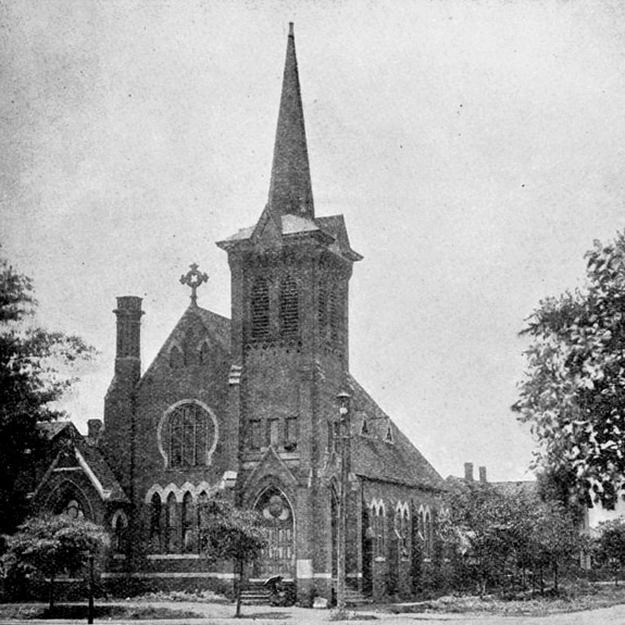 Photograph of the building used by 16th Street Baptist Church in Birmingham, Alabama from 1884 to 1908.